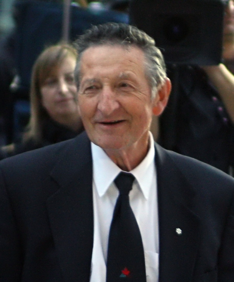 Walter Gretsky at the premier of Score A Hockey Musical TIFF2010 (cropped)